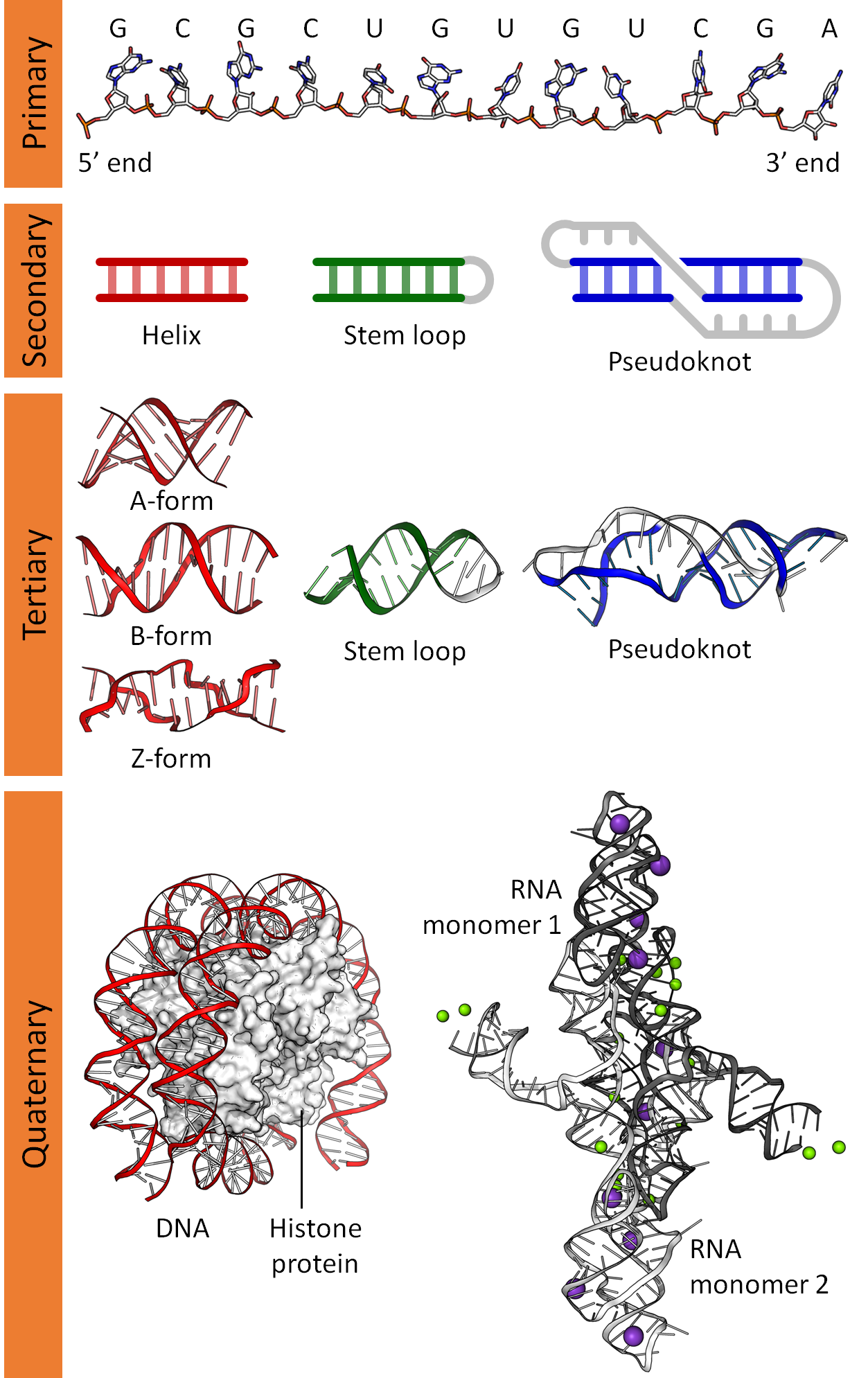 Summary of nucleic acid structure (primary, secondary, tertiary, and quaternary) using DNA helices and examples from the VS ribozyme and telomerase and nucleosome. (PDB: ADNA, 1BNA, 4OCB, 4R4V, 1YMO, 1EQZ​)